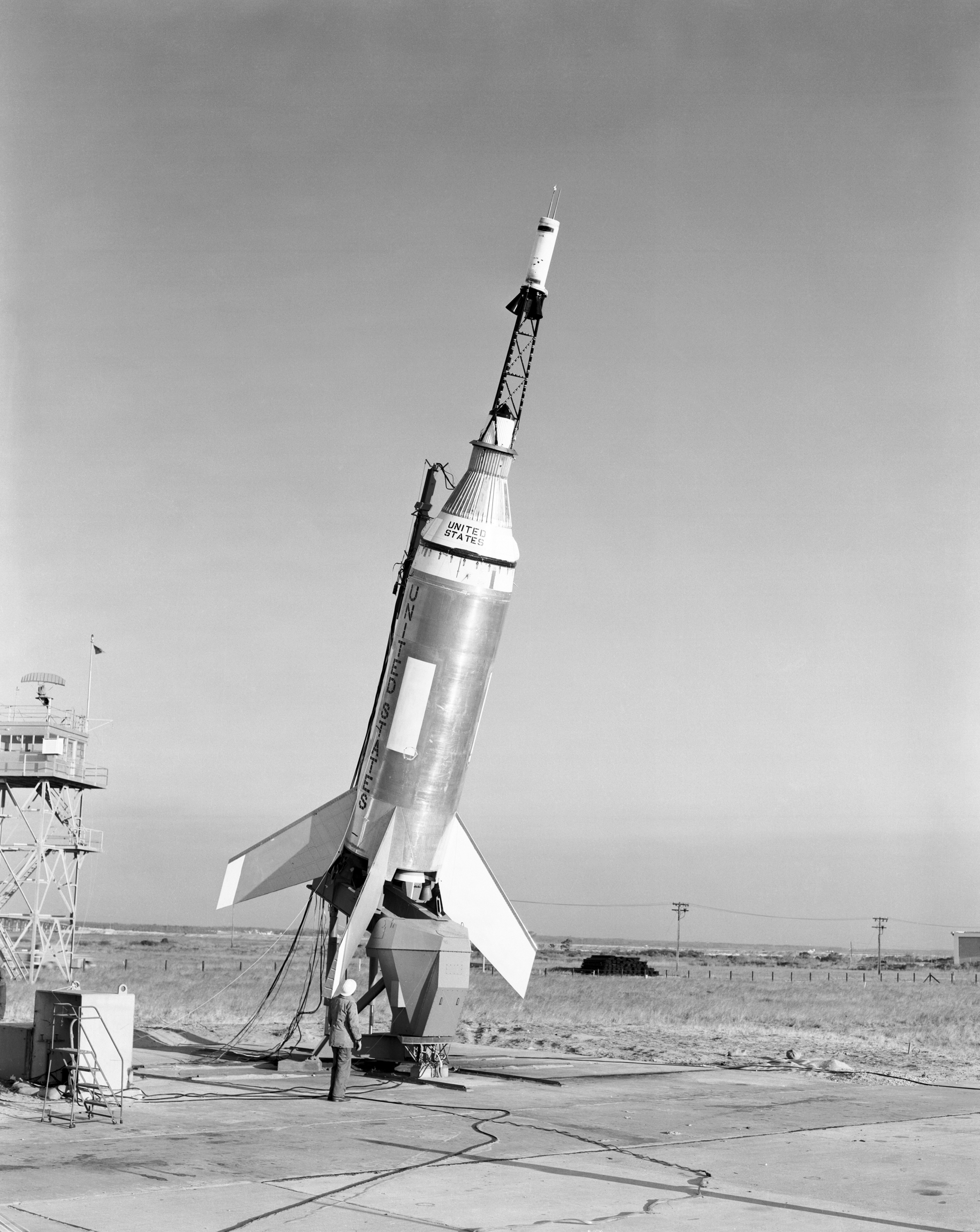 Launching of the Little Joe launch vehicle on October 4, 1959 took place at Wallops Island, Va. This was the first attempt to launch an instrumented capsule with a Little Joe booster. Only the LJ1A and the LJ6 used the space metal/chevron plates as heat reflector shields, as they kept shattering. Little Joe was used to test various components of the Mercury spacecraft, such as the emergency escape rockets.